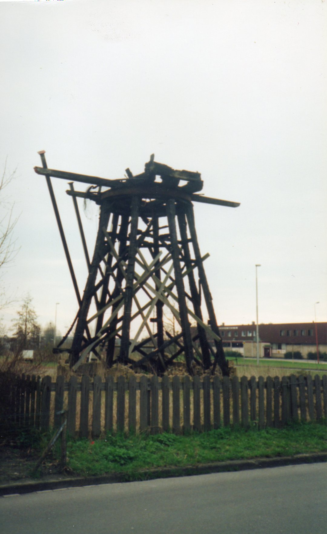 The Cammingha-Buurtstermolen in January 1998